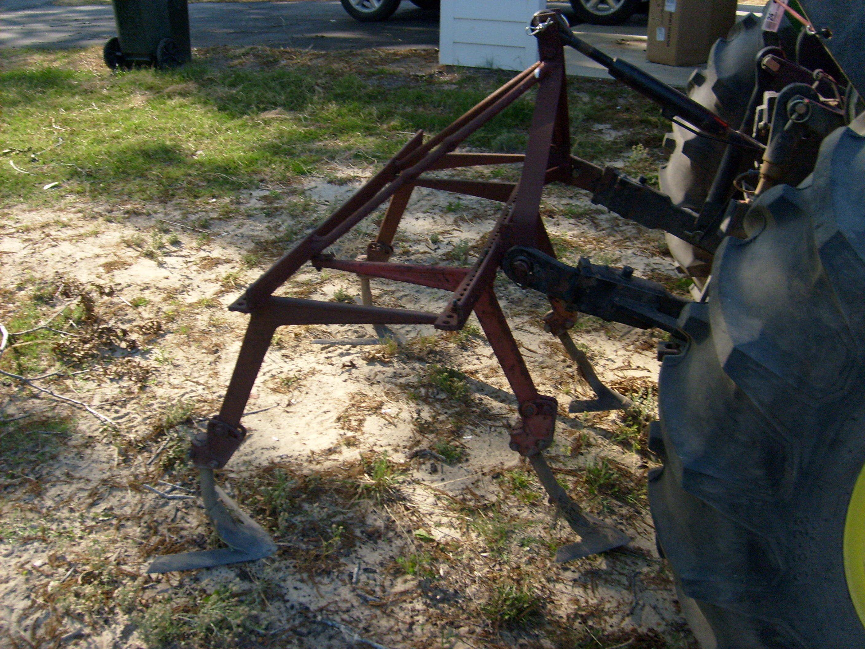 A homemade sweep – also called "sweep cultivator", or "sweep plow" (though it's not a real plow) – on the back of a 2003 John Deere 5220 tractor. Notice the inner and outer "sweep" blades.